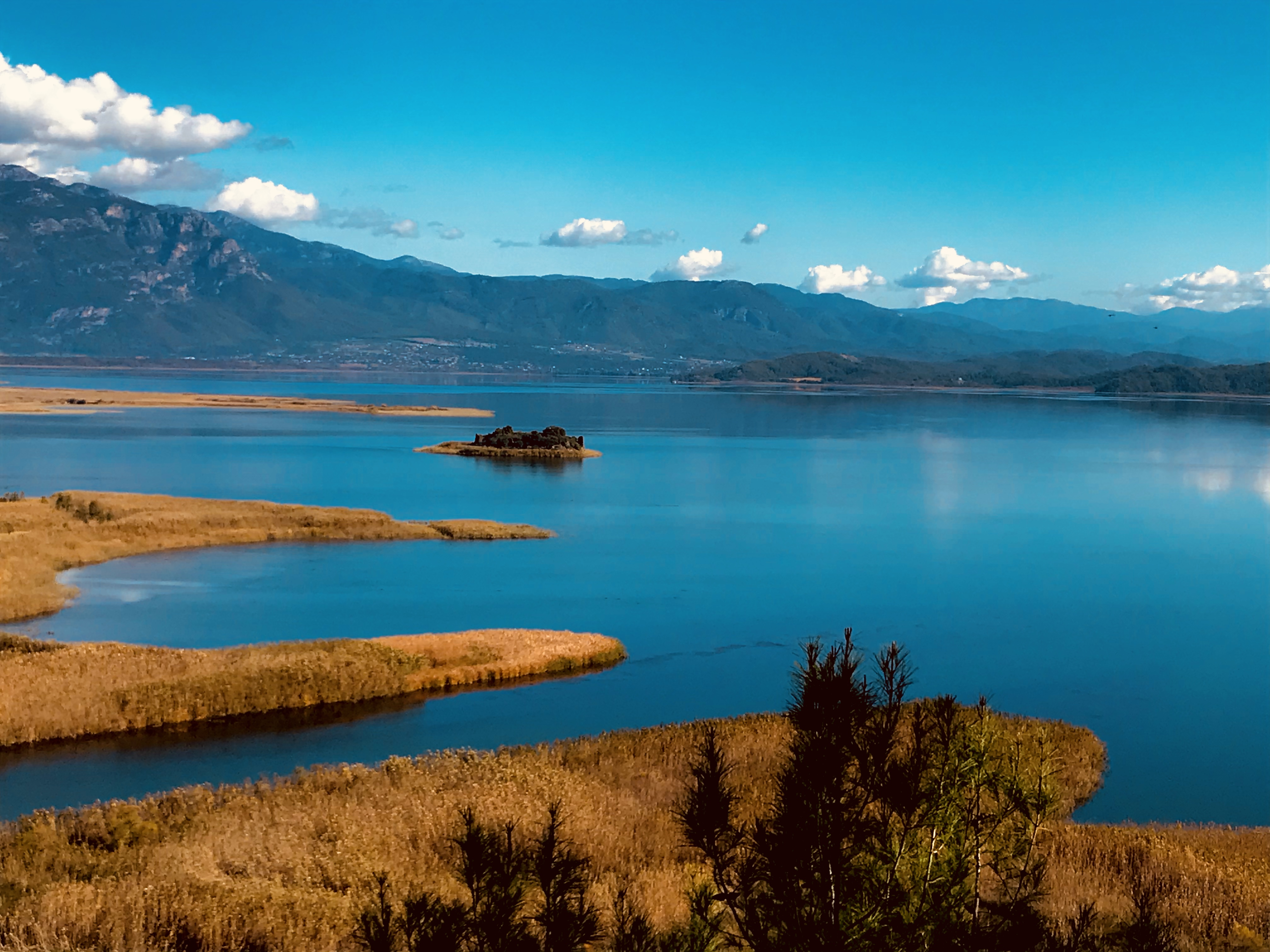 On the way to Sultaniye Springs i stopped for a rest and a photo break. Here is Köyceğiz Lake from the "other side". The land which is basically a morass reaches into the lake and creates these beautiful little bays that attracts human curiosity.